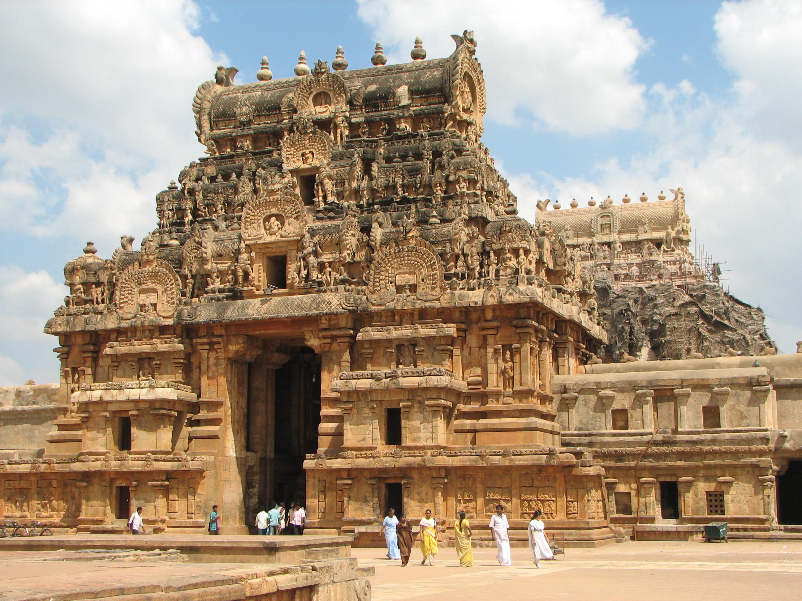 Second gopuram of Brihadeeswarar Temple, Thanjavur, State of Tamil Nadu, India